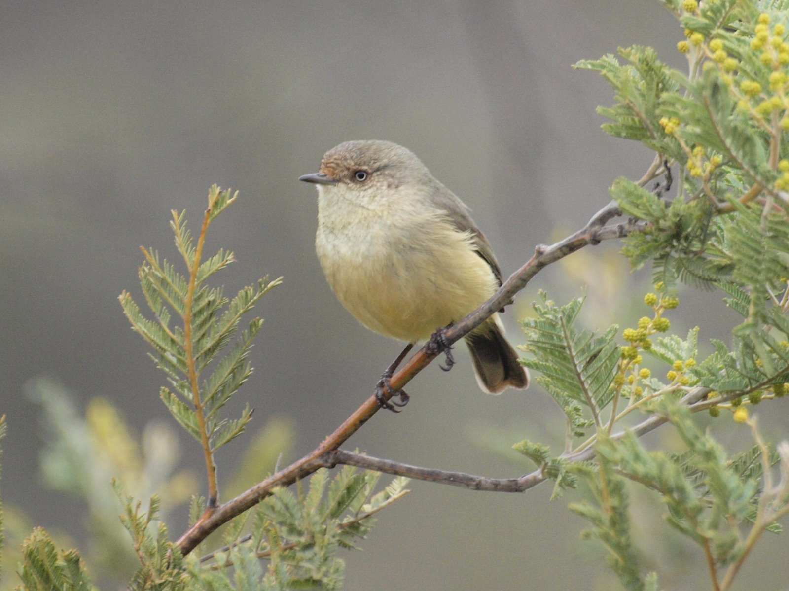 A Buff-rumped Thornbill in Canberra, Australia.